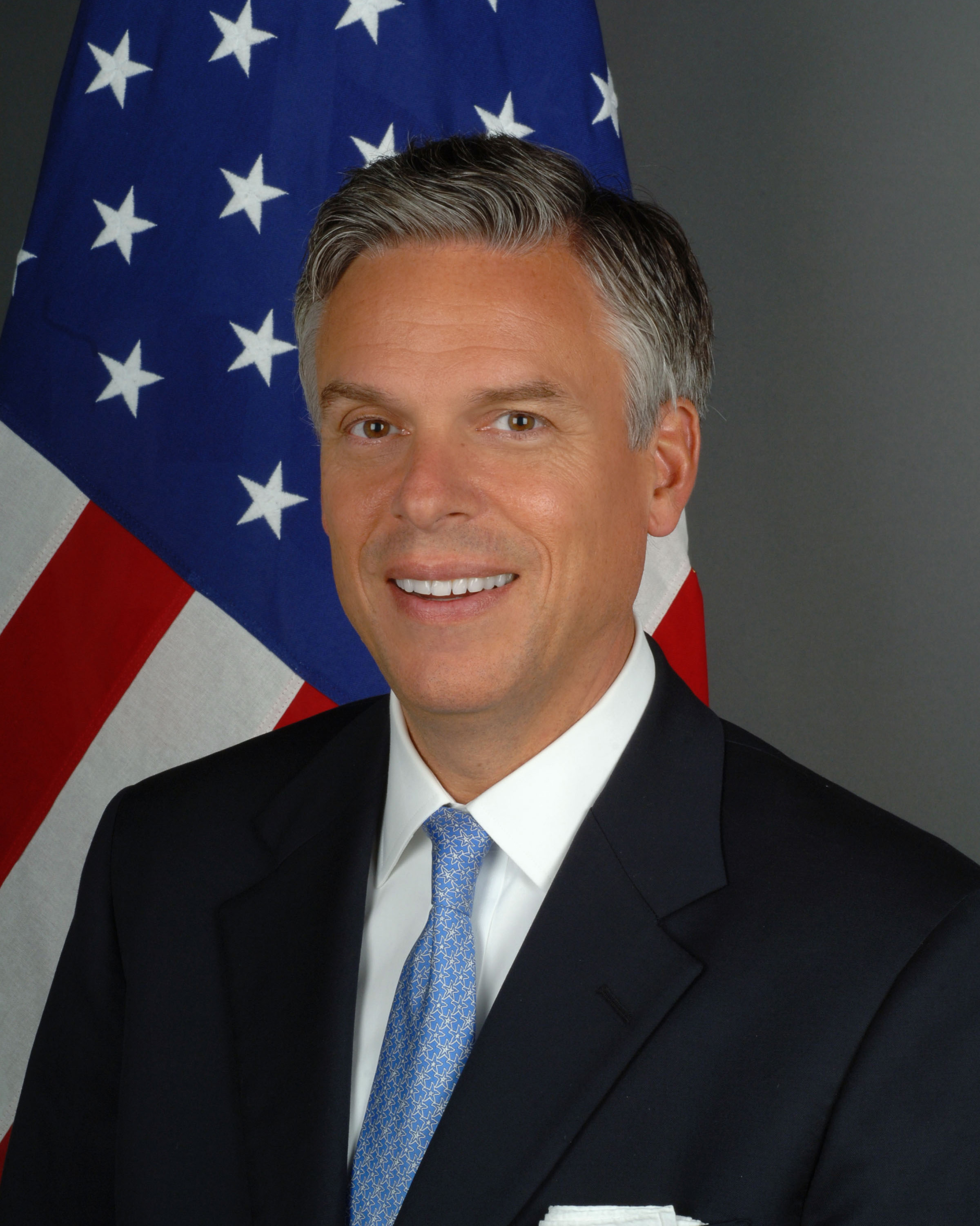 Official photo of United States Ambassador to China Jon Huntsman, Jr.